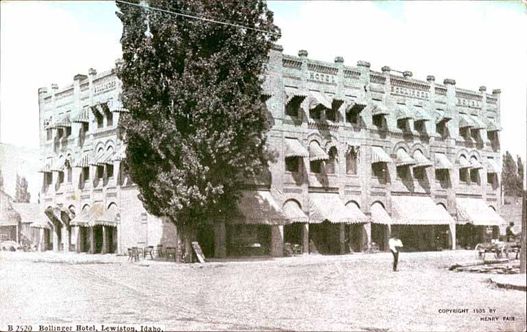 Caption on image: B 2520 Bollinger Hotel, Lewiston, Idaho. Copyright 1905 by Henry Fair Originally a Nez Perce settlement, Lewiston, Idaho, founded in 1861, and was named after Meriwether Lewis. It is one of Idaho's oldest towns and, through the Snake River, its only seaport. In 1860's the town enjoyed a boom when gold was found in the region and in 1863-1865 it served as the state capital. Subjects (LCTGM): Hotels--Idaho--Lewiston Subjects (LCSH): Bollinger Hotel (Lewiston, Idaho); Lewiston (Idaho)--Buildings, structures, etc.